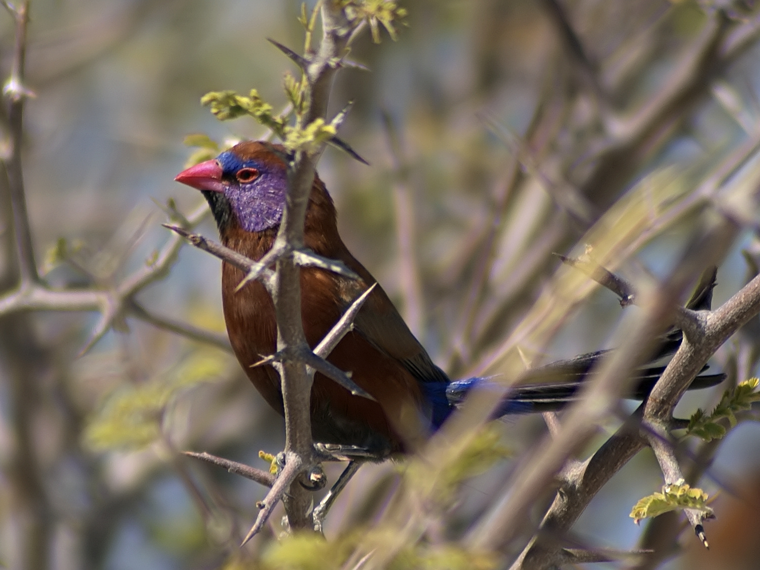 Violet-eared Waxbill at Kalkheuwel waterhole, Etosha, Namibia.